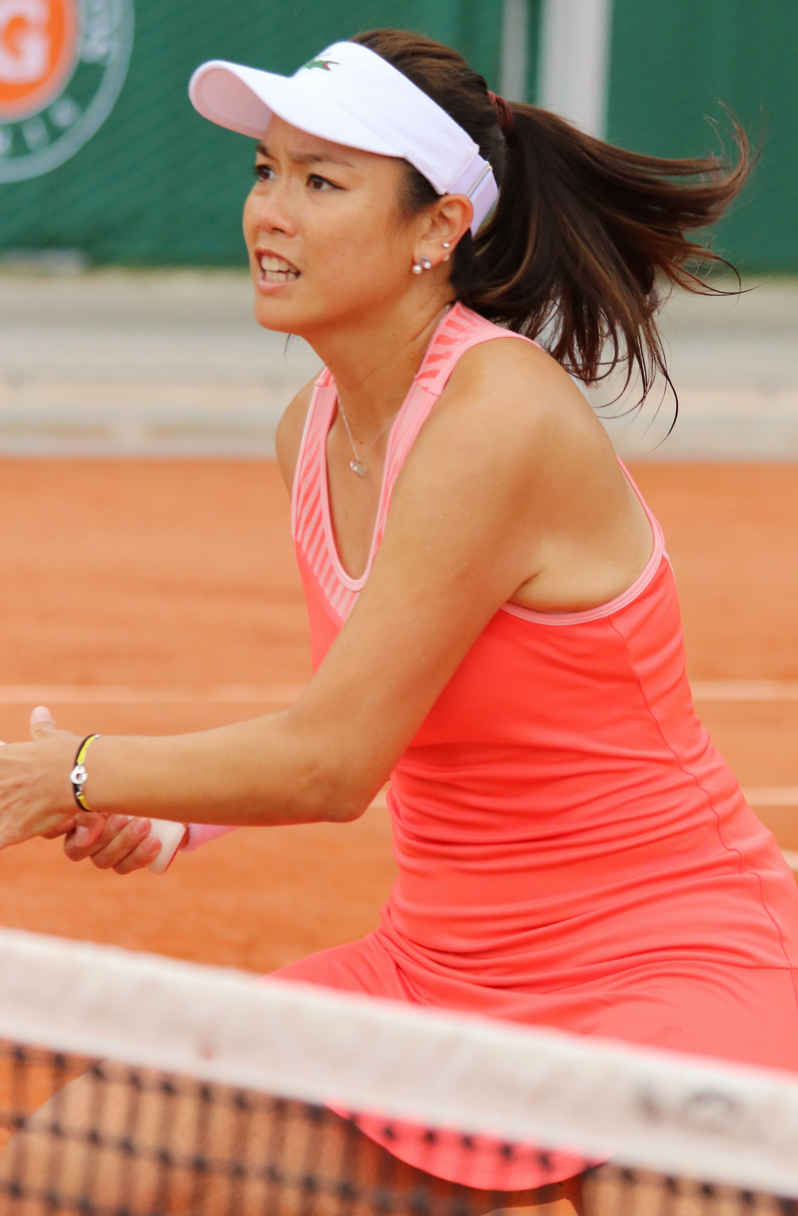 Chan L. RG19 (4)